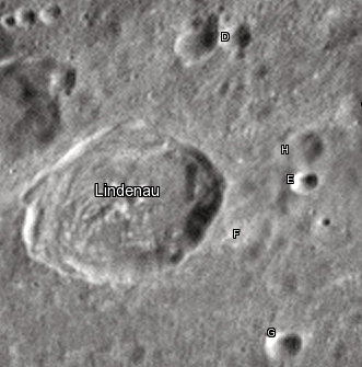 Lindenau lunar crater as seen from Earth with satellite craters labeled